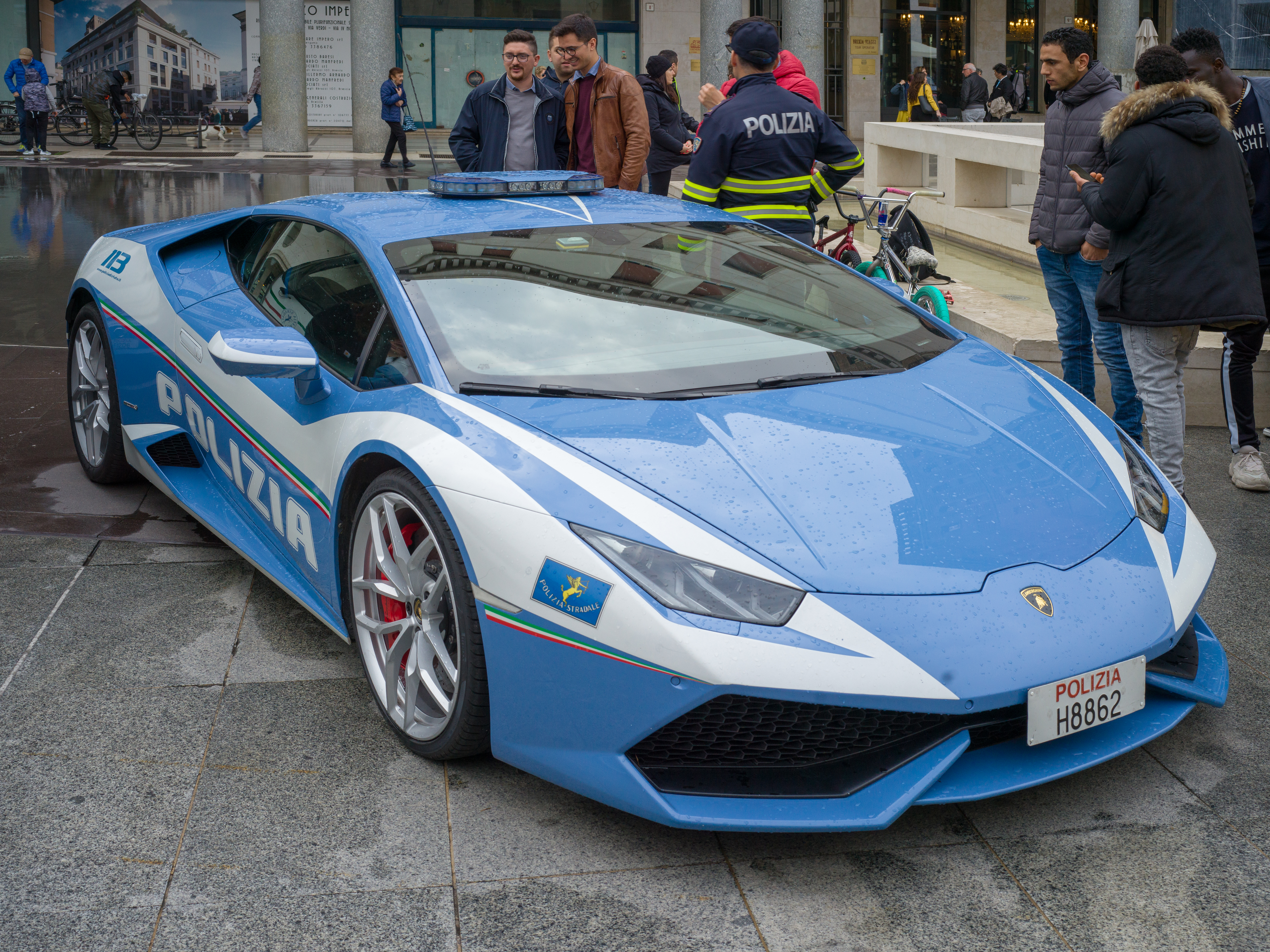 Lamborghini Huracán donated to the Italian State Police on Piazza della Vittoria square in Brescia.